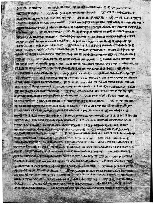 Glagolita Clozianus, one of the Old Church Slavonic canon monuments, from the 11the century.